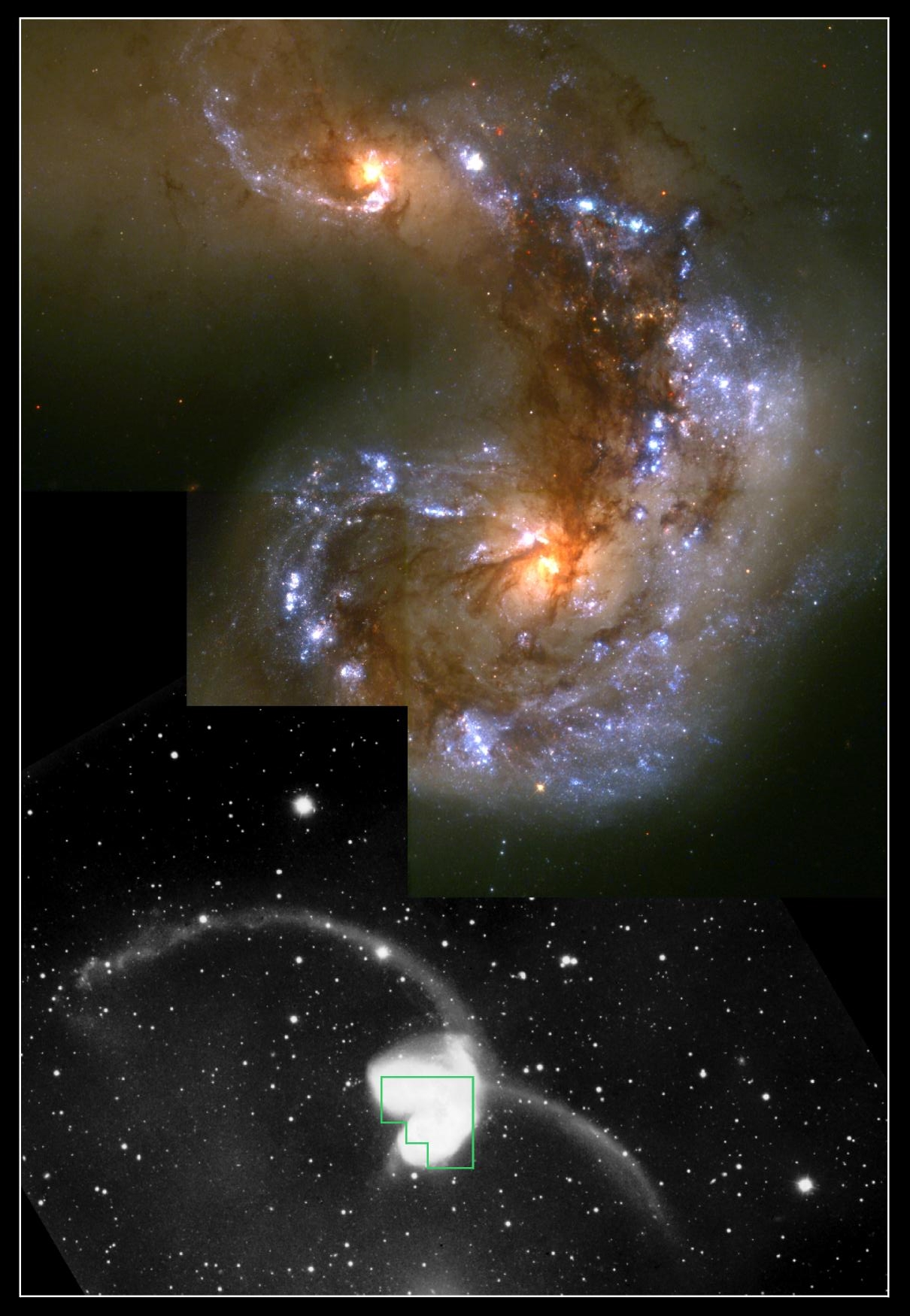 Portrait orientation of File:Antennae 1997-34-a-full jpg.jpg